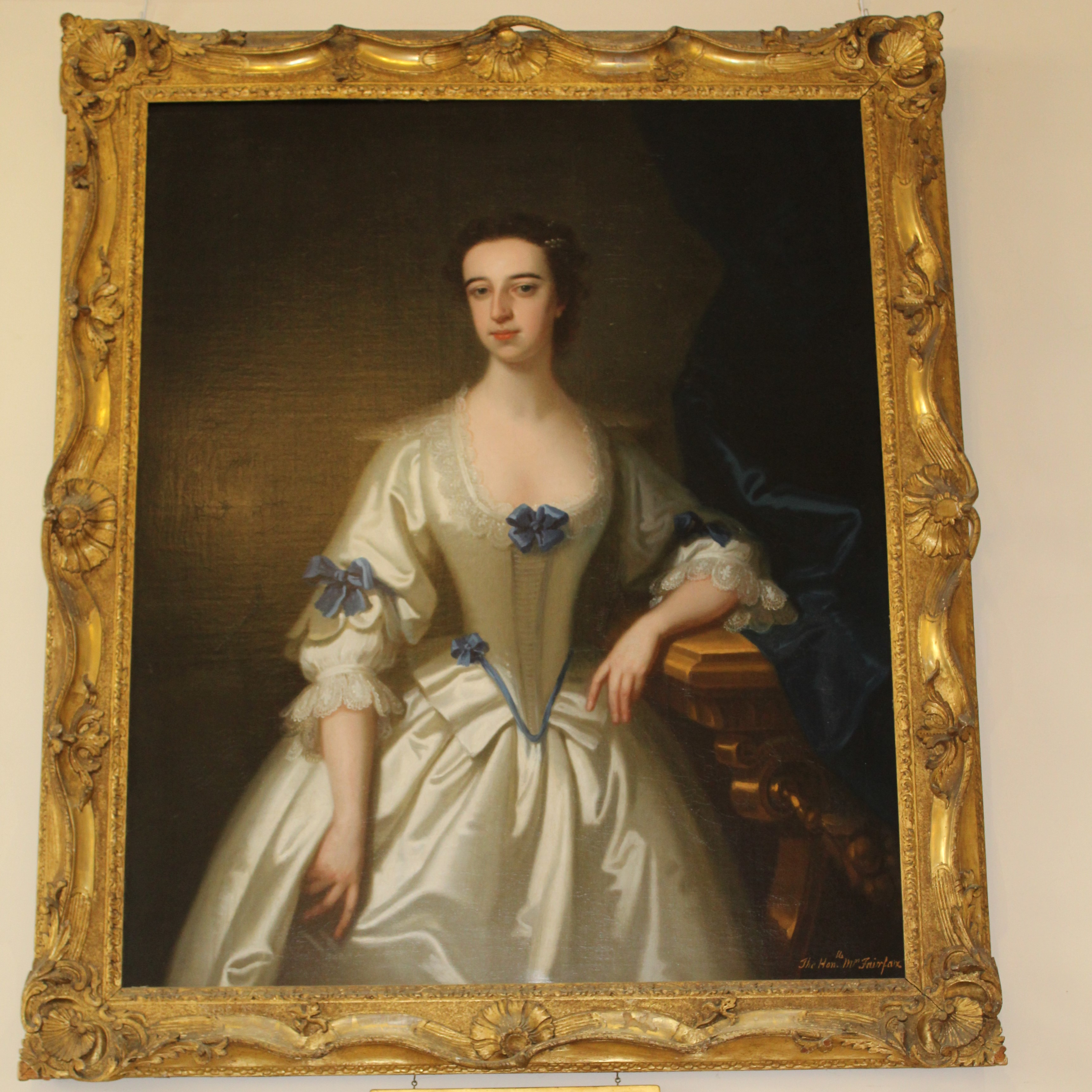 Dorothy Best, second wife of 7th Lord Fairfax. Painting by Enoch Seaman,with thanks to Leeds castle for allowing photography.